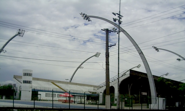 Sambódromo do Anhembi in São Paulo City.